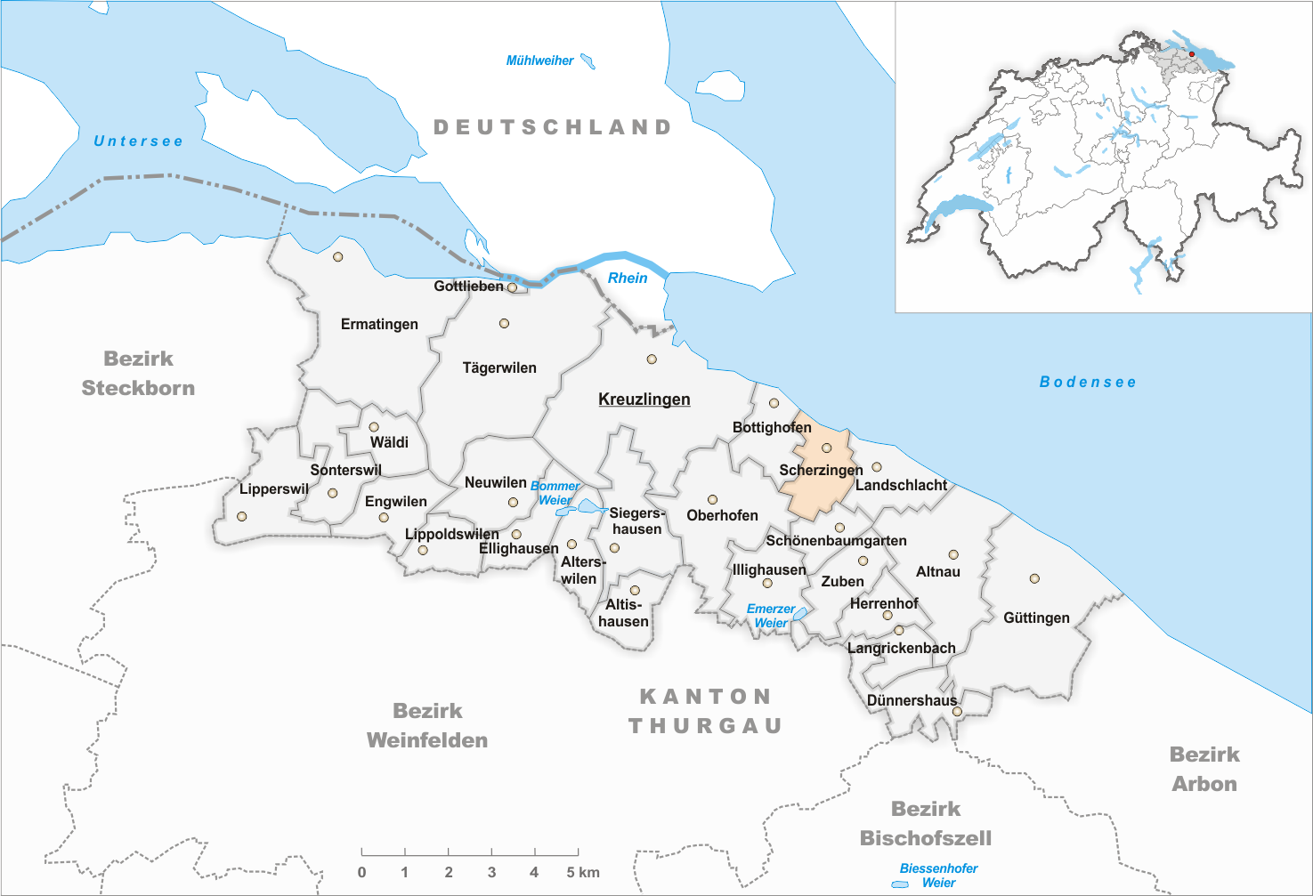 Municipality Scherzingen